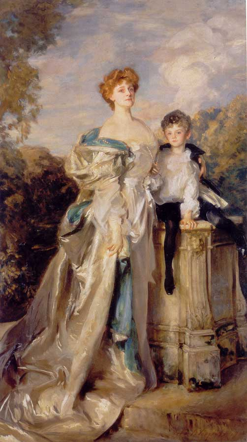 Frances Evelyn Daisy Greville, Countess of Warwick